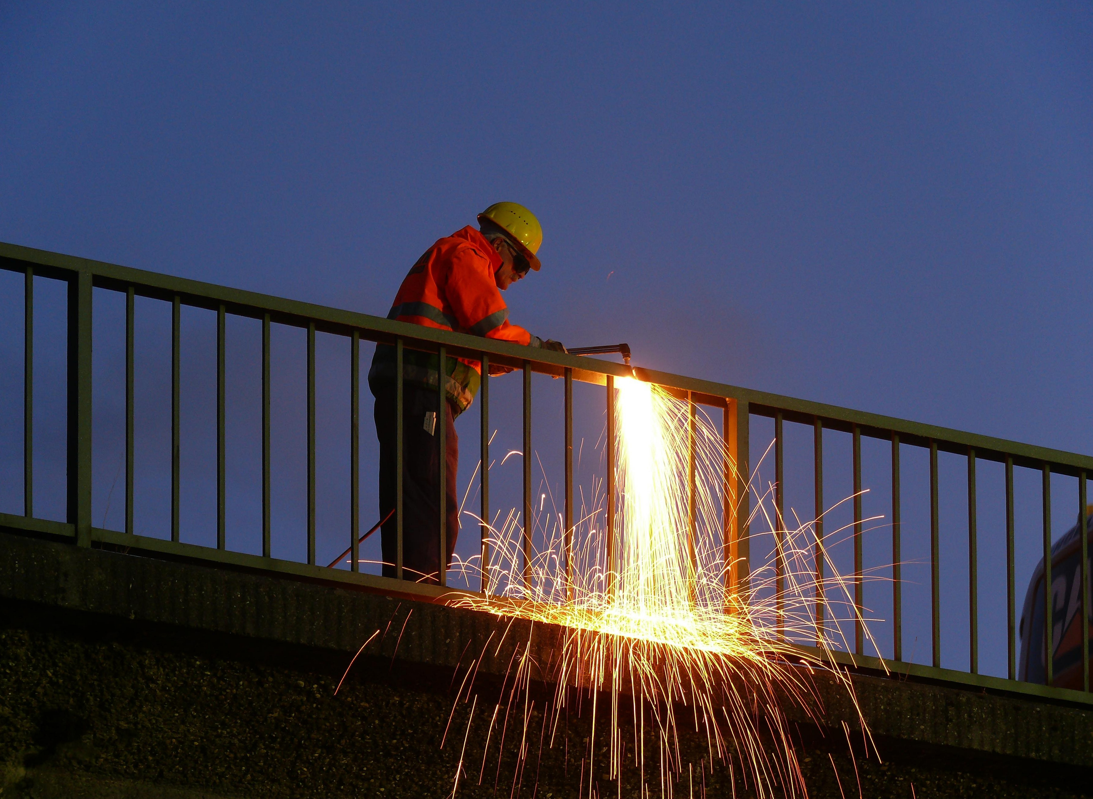 motorway bridge demolition at Heidelberg 2012